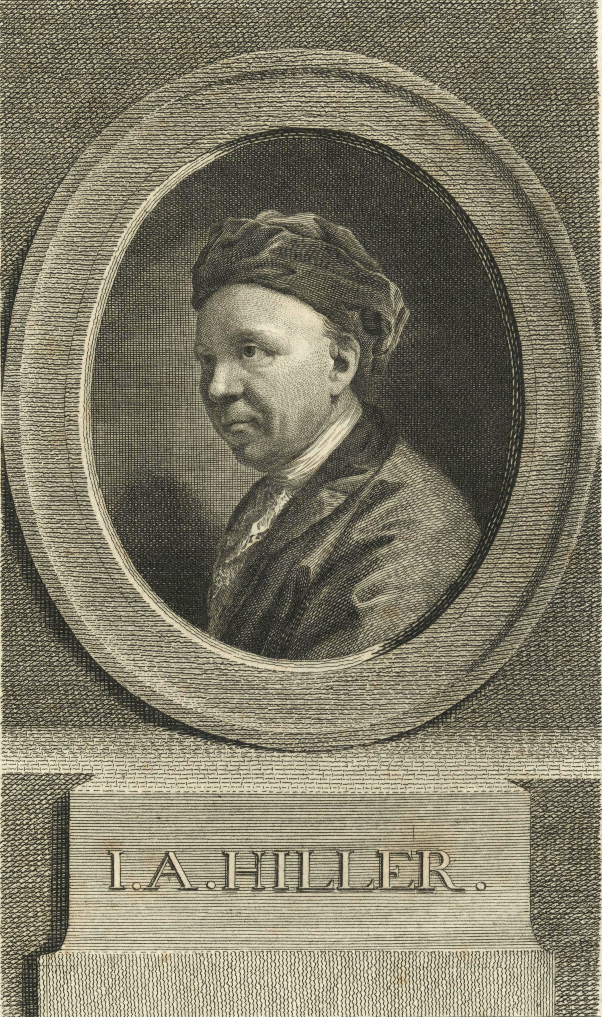 Depicted person: Johann Adam Hiller